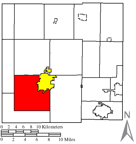 Made by the US Census and modified by myself